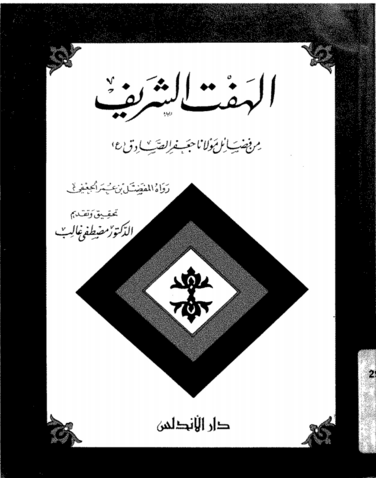 هو عبارة عن صورة لغلاف كتاب .